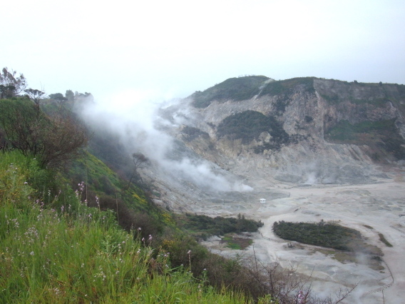 Solfatara, one of the vulcanoes of the Campi Flegrei, Pozzuoli, near Naples